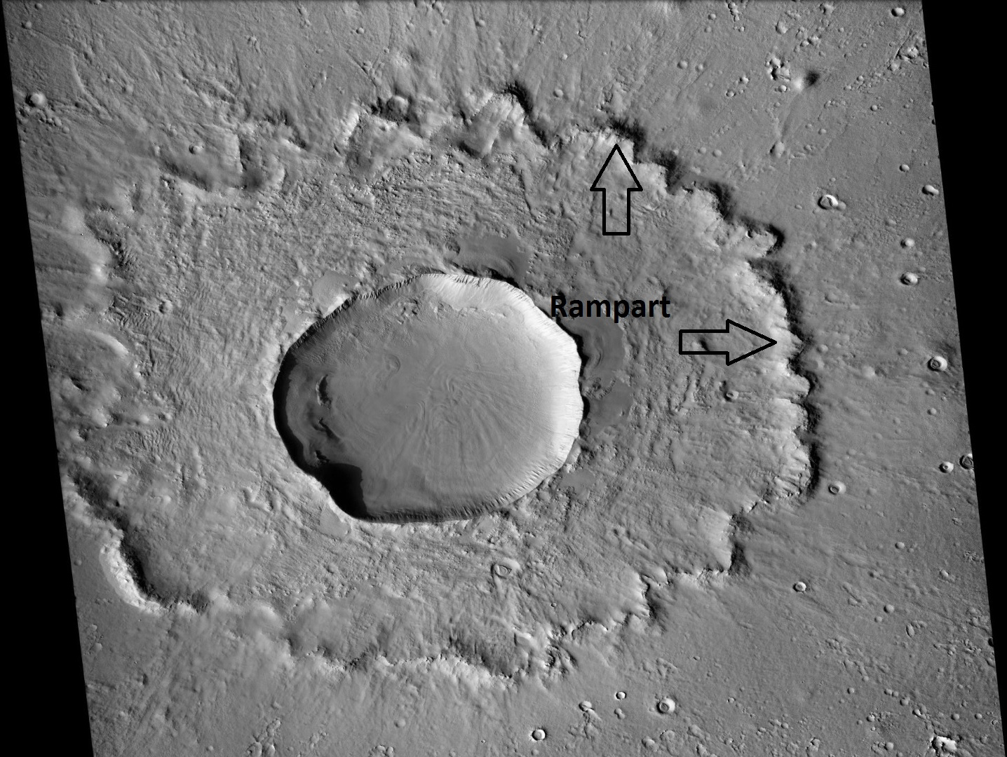 Single-layered ejecta crater, as seen by CTX on Mars Reconnaissance Orbiter. The crater is unnamed as of June 2020, and lies on the west edge of Utopia Planitia. Image ID: B05_011564_2163_XN_36N279W Center Lat: 36.33° Center Lon: 80.52° Incidence Angle: 67.89° Emission Angle: 25.58° Phase Angle: 44.09°